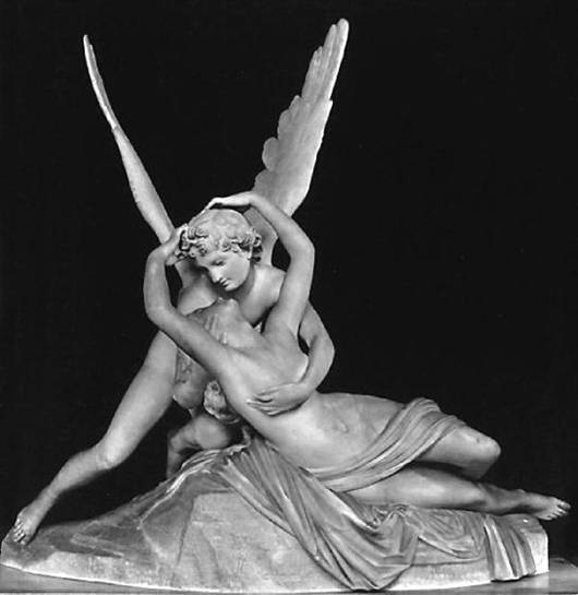 Psyche revived by the kiss of Love by Canova